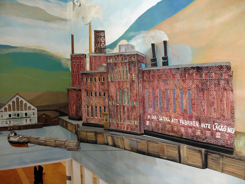 Part of the Swedish artist Anders Åberg's wooden sculpture in Skogshögskolan in Umeå, from 1979.